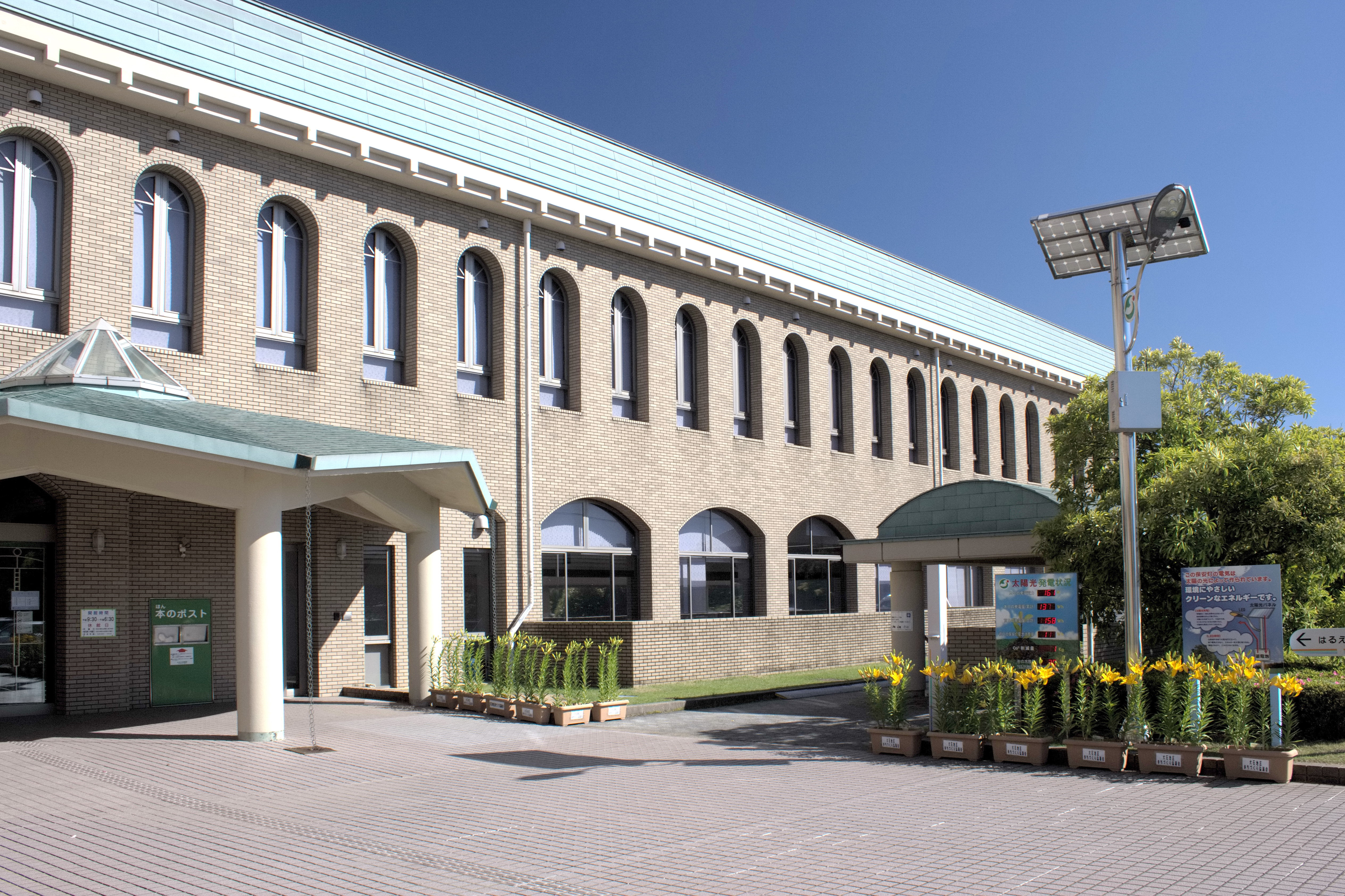 Sakai City Library in Fukui Prefecture, Japan